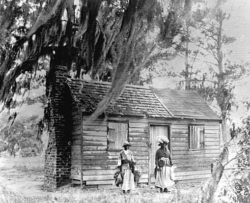 The cabin where Mary Jane McLeod was born and grew up in Mayesville, South Carolina. Photo taken 18??.